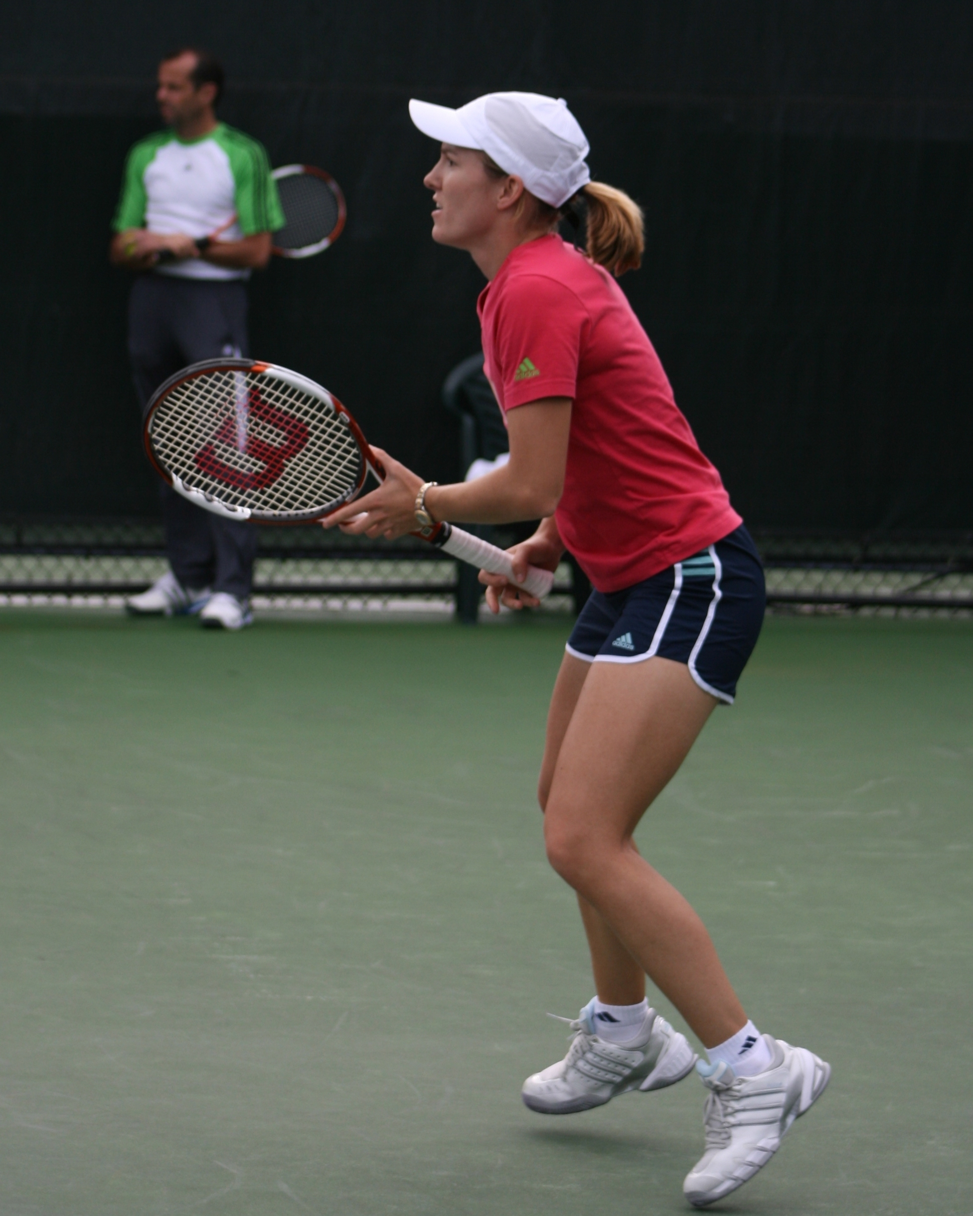 Justine Henin at the 2007 Sony Ericsson Open.